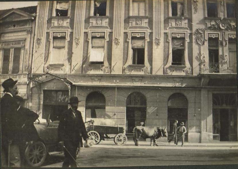 Belgrade Grand Hotel, 1919. Original caption This photo shews part of the Grand Hotel, the interior of the building has suffered greatly by enemy occupation. With the rapid progress the City is almost sure to make there is room for another good class hotel in the main street. Near the railway station there is a good Hotel building, but, like the Moskah, has been looted and is also closed.